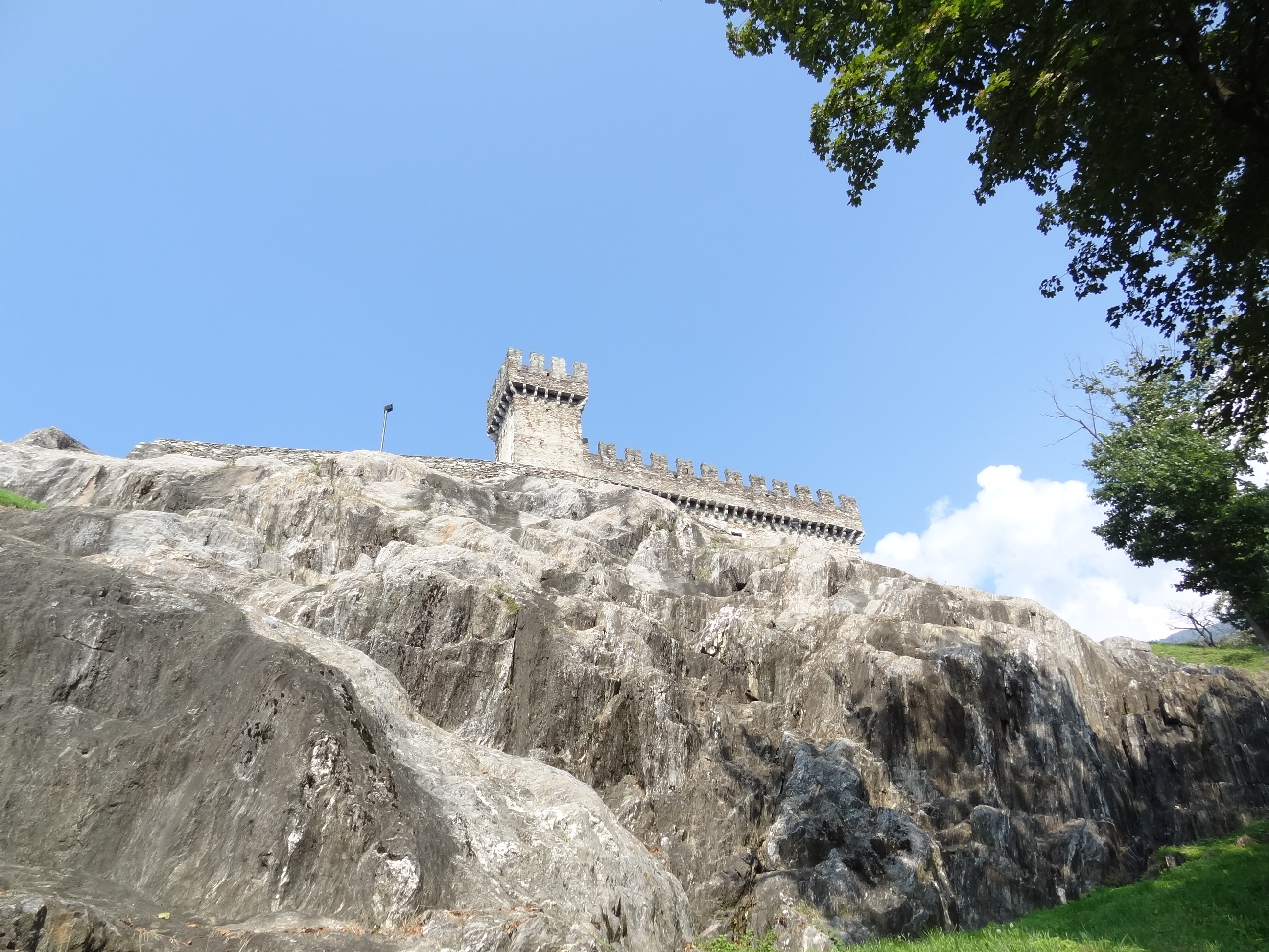 sasso corbato castle Bellinzona